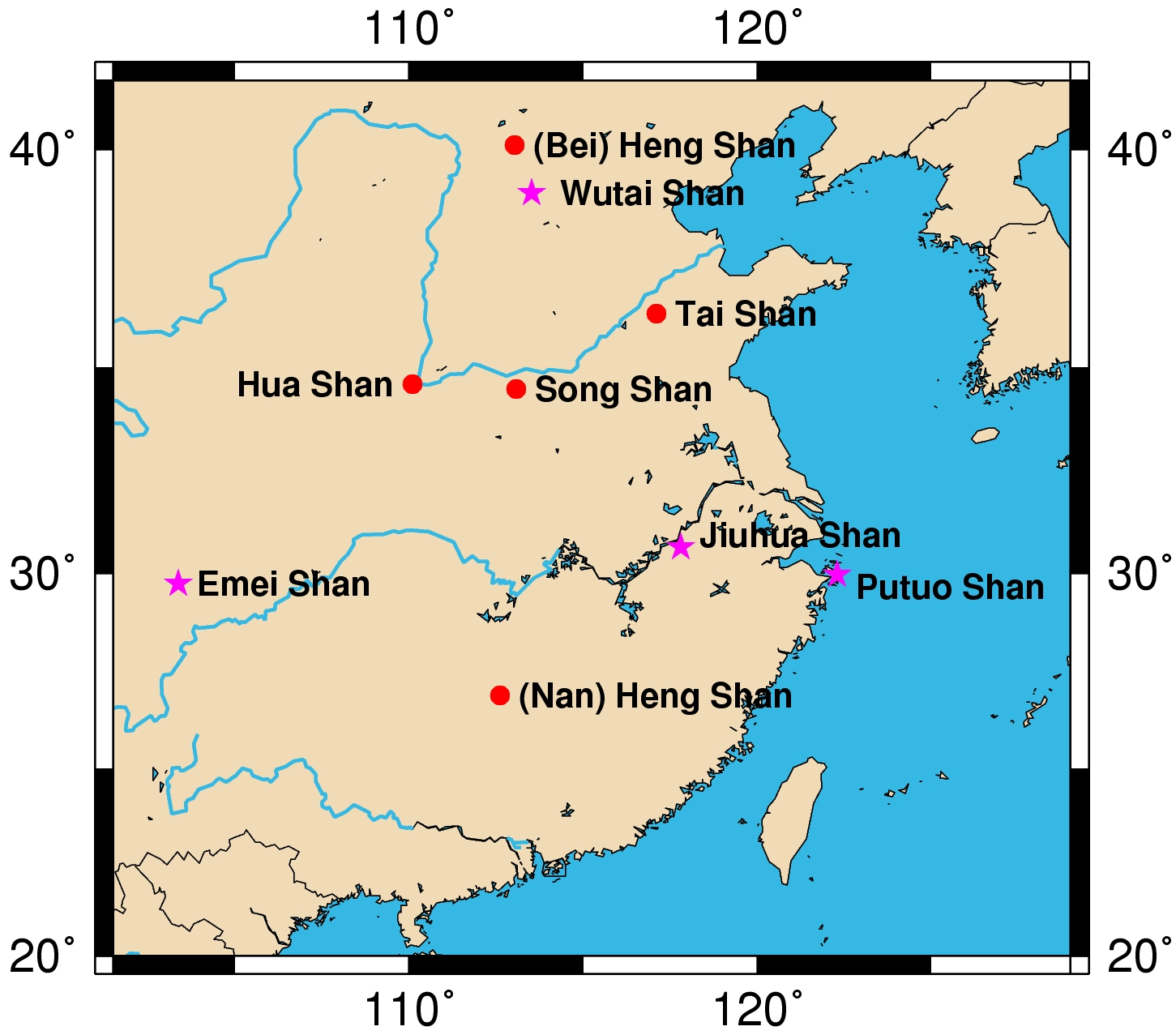 Map of sacred mountain in China, taken from en wiki